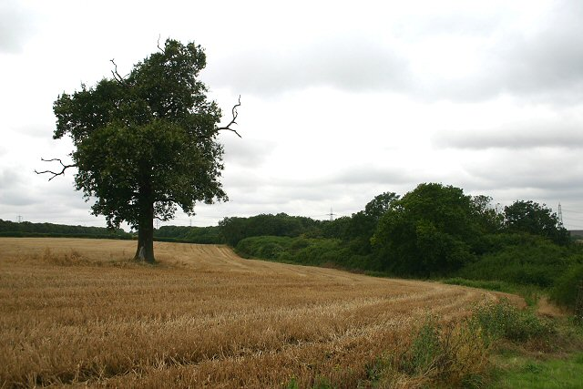 Calpher Wood This wood lies west of the village of Grafham, close to the edge of the reservoir.